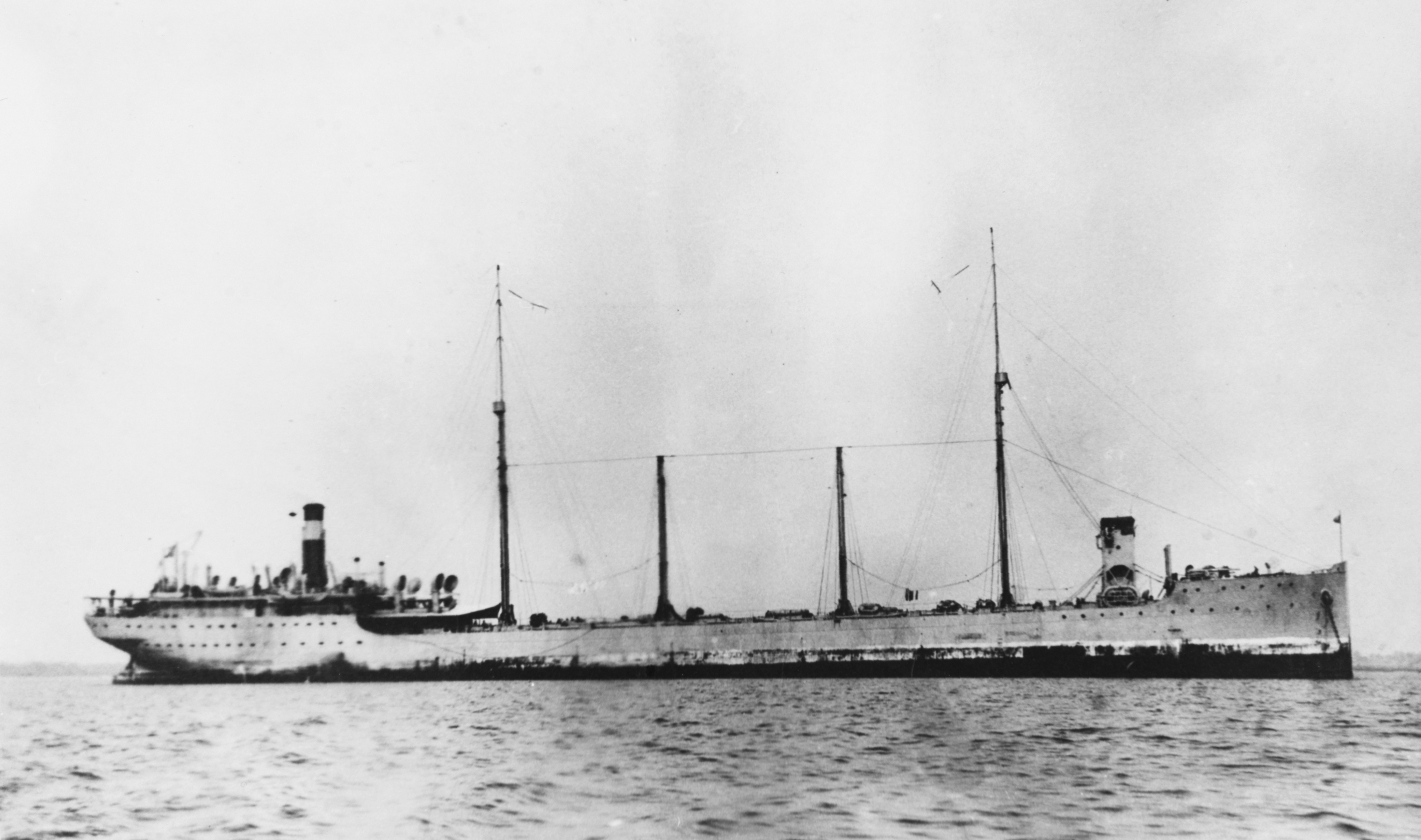 The U.S. Navy fleet oiler USS Maumee (Fuel Ship No.14, later AO-2) photographed circa 1917 in her original configuration with the bridge near the bow. The unusually small smokestack is for her early-model Diesel engines. In both this ship and her near sister USS Kanawha the bridge soon had to be moved aft of the foremast.